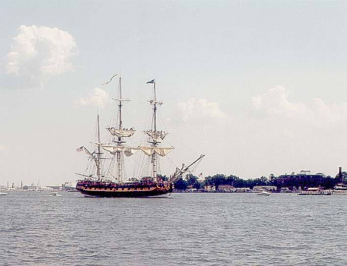 HMS Rose in 2000 on a voyage from Charleston to Baltimore